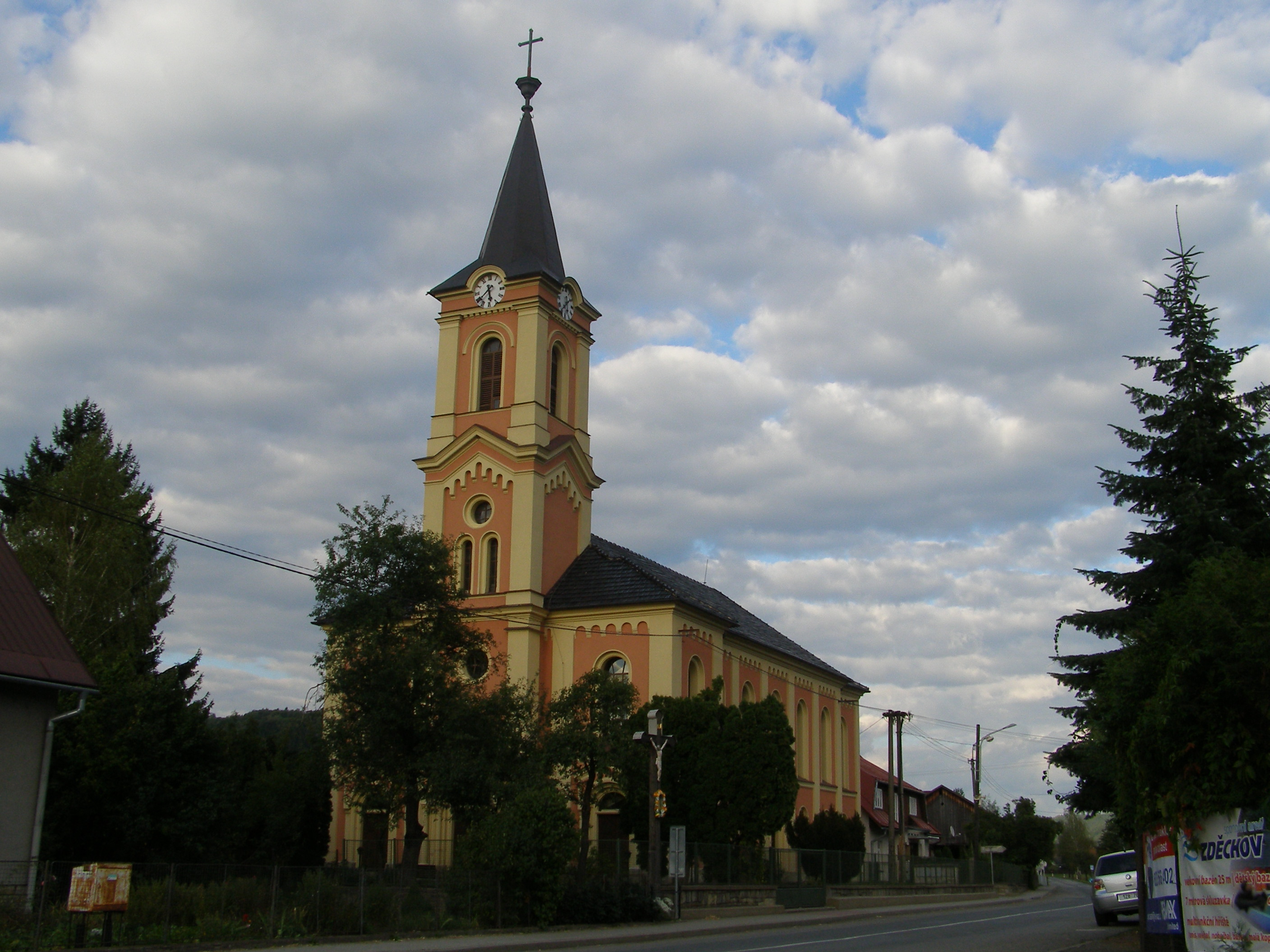 Huslenky, Vsetín District, Czech Republic.